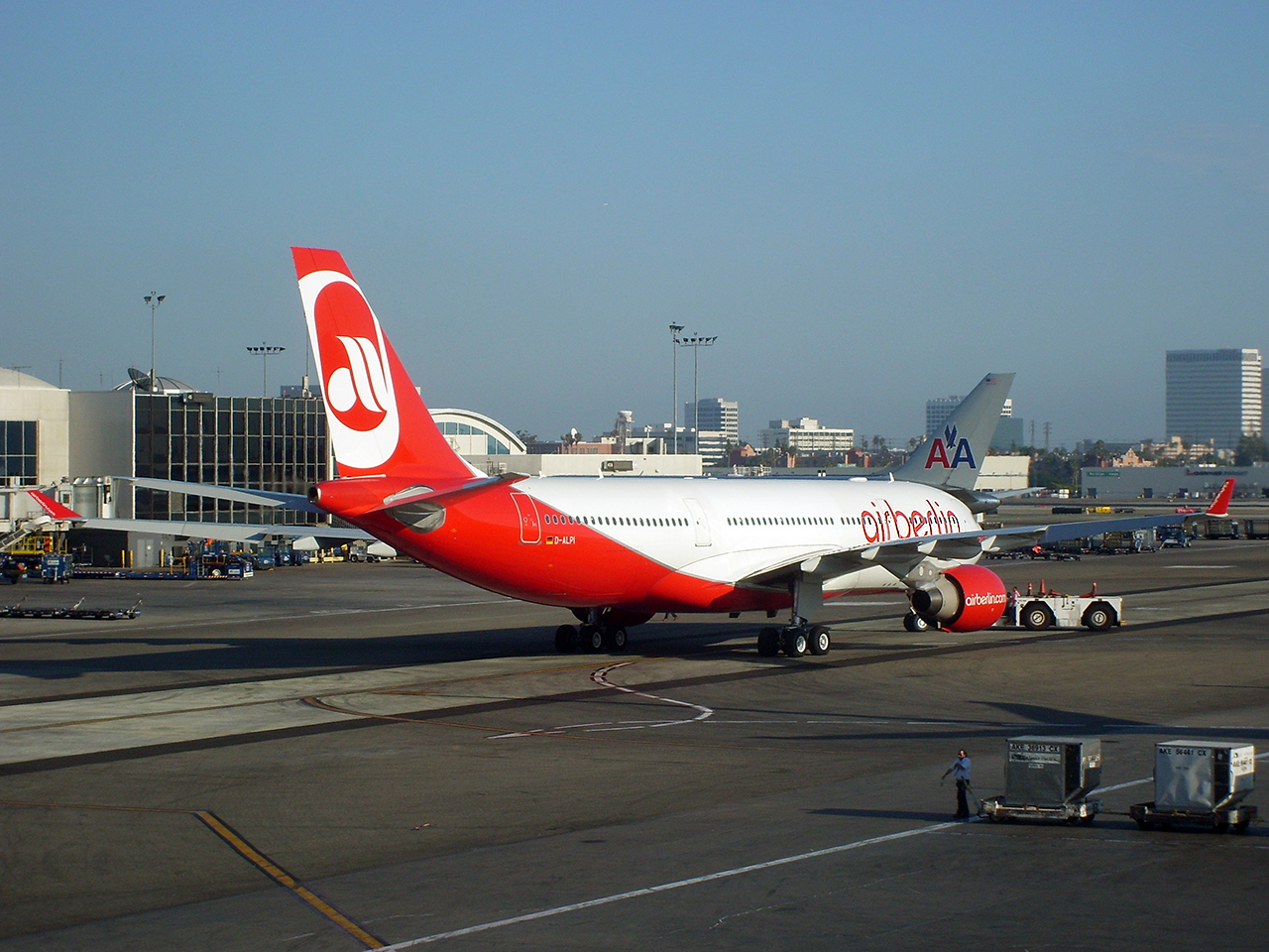 Air Berlin (AB/BER)A330-223, D-ALPI c/n 828 at Los Angeles Int'l (LAX/KLAX)